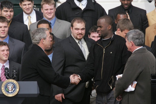 Former University of Texas quarterback Vince Young shakes hands with United States president George W. Bush